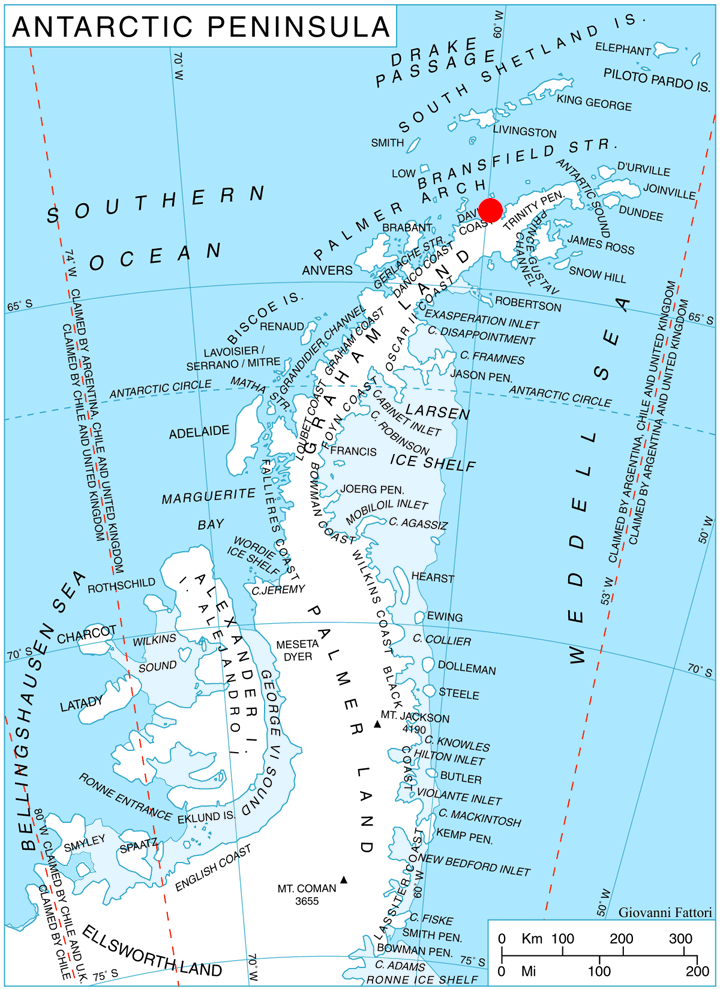 Location of Whittle Peninsula in Graham Land, Antarctic Peninsula.